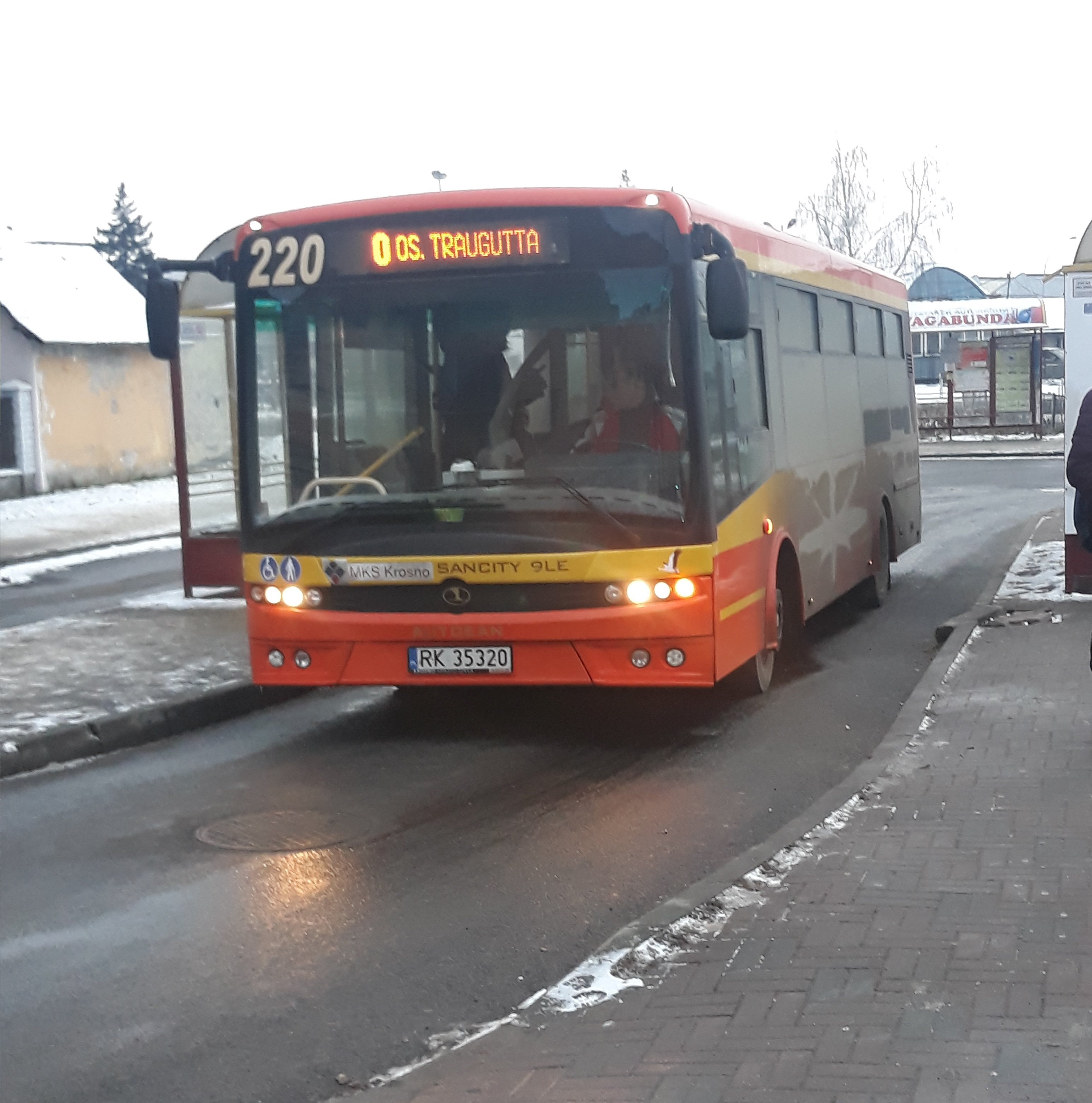 Autobus Autosan Sancity M09LE w barwach MKS Krosno podczas obsługi linii "0"